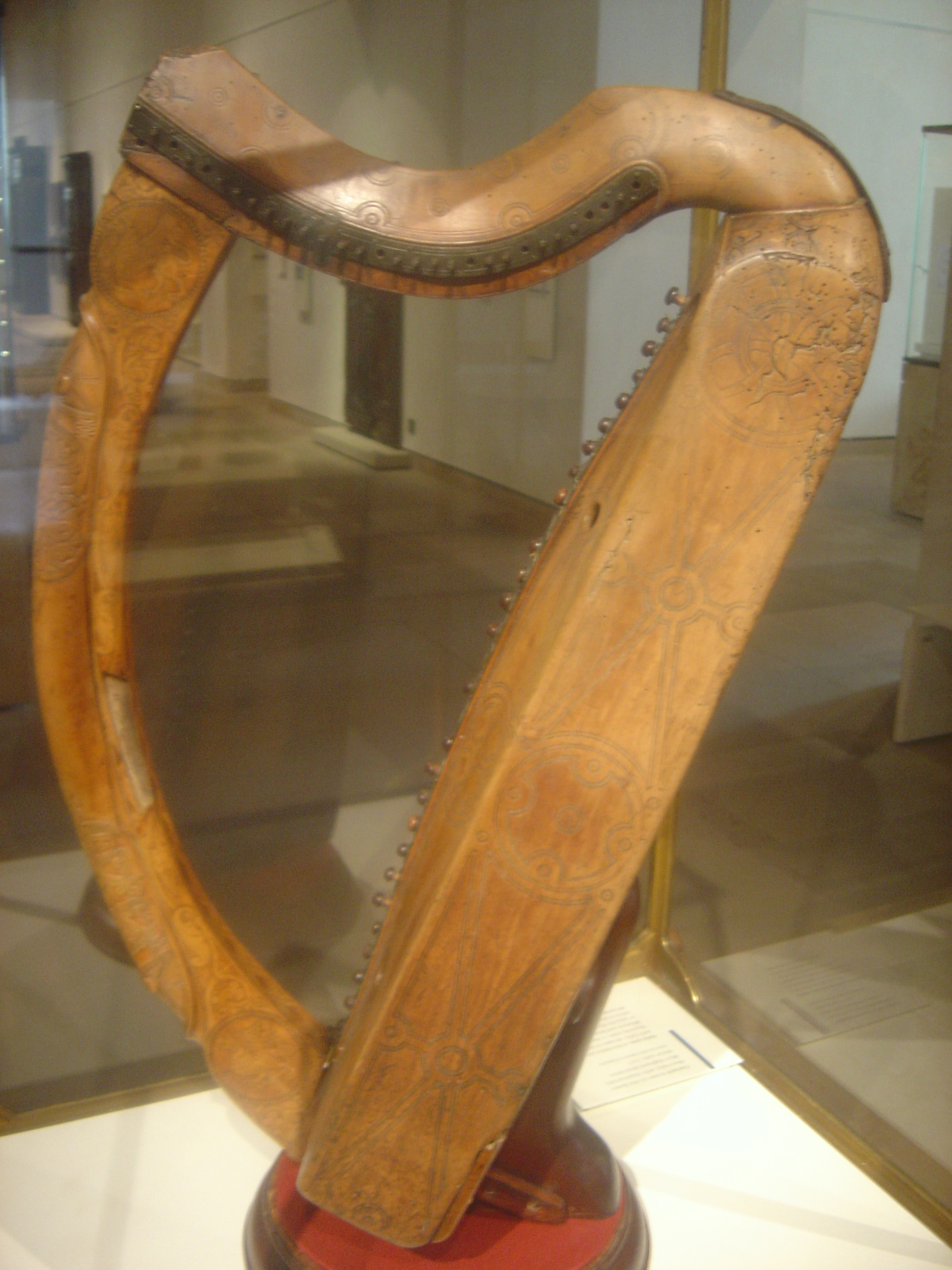 A celtic harp Queen Mary Harp Photo taken at the National Museum of Scotland, Edinburgh